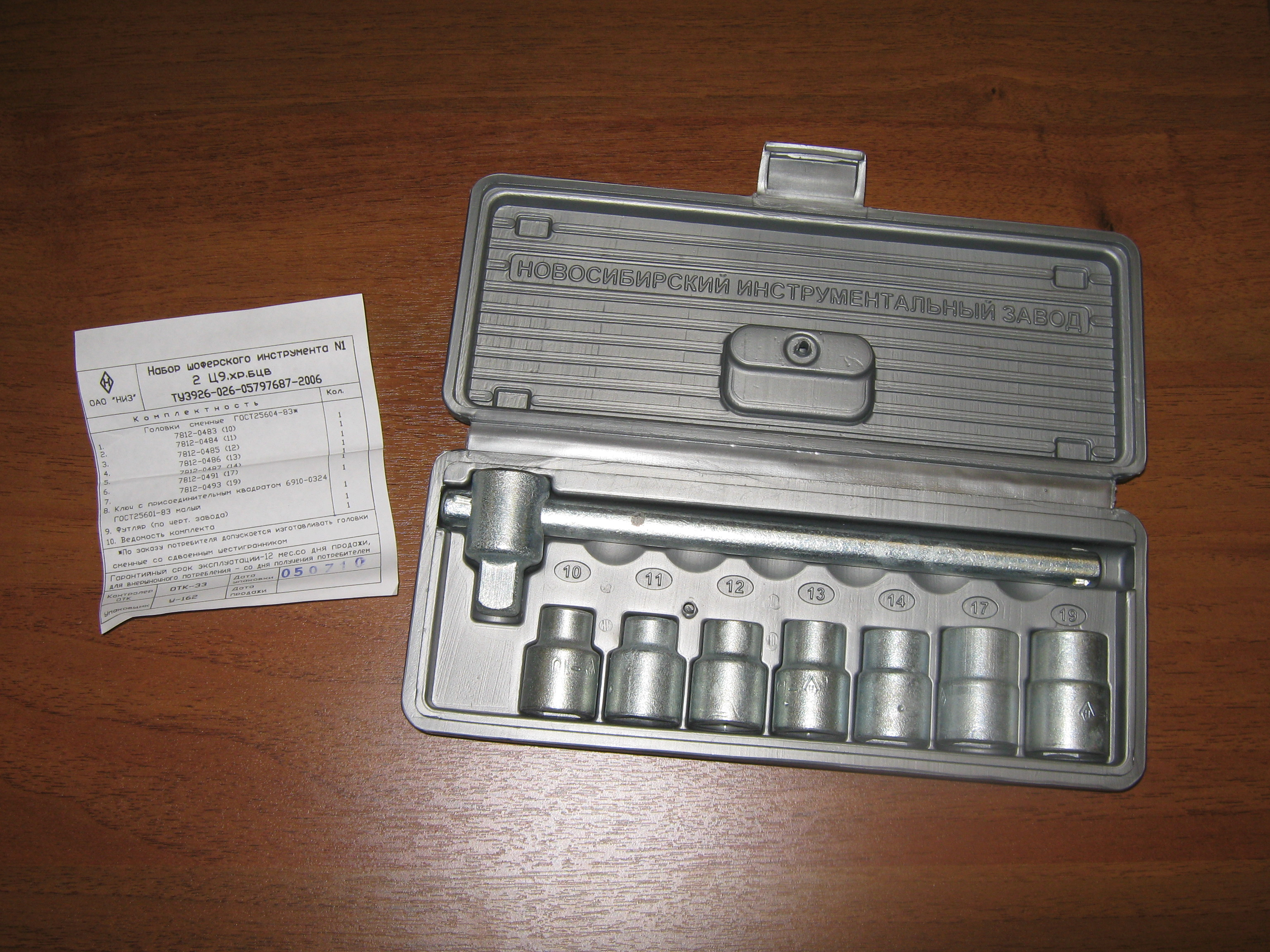 A set of metric socket wrenches.